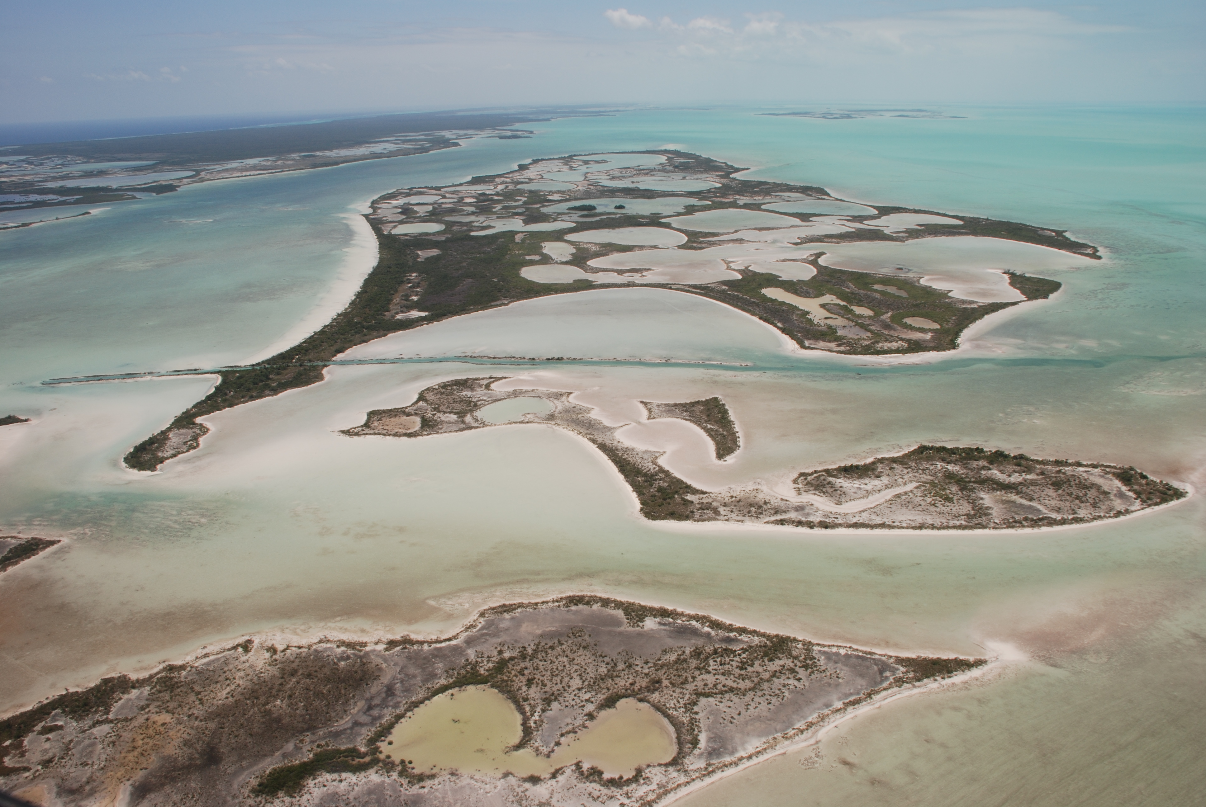 Cayo Chelem